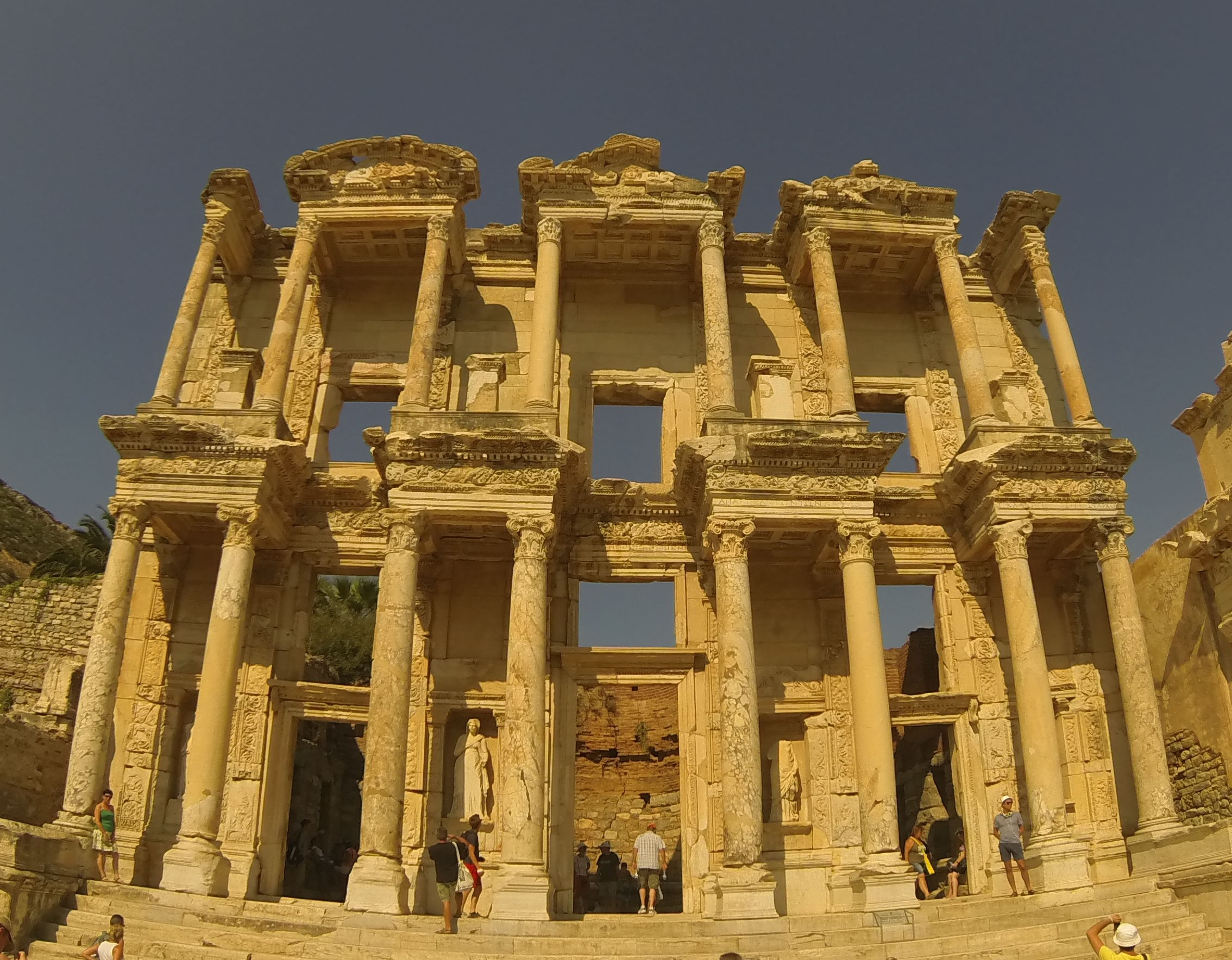 The antic Ephesus in Turkey (near Izmir) 2013.